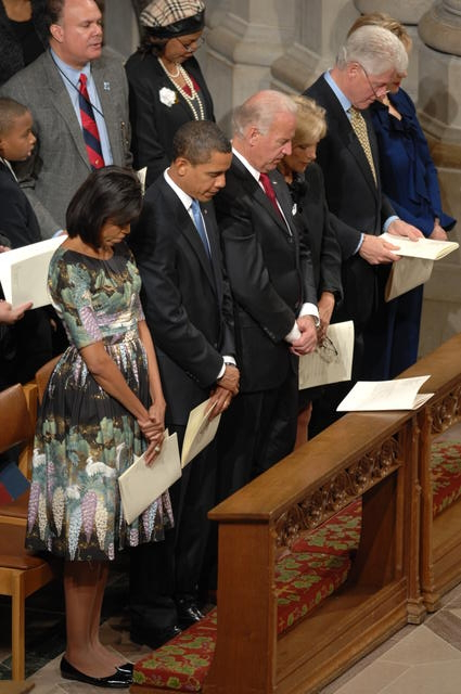 From left to right, First Lady Michelle Obama, President Barack Obama, Vice President Joe Biden, Dr. Jill Biden, former President Bill Clinton and Secretary of State–designate Hillary Clinton at the inaugural prayer service held on January 21, 2009 at the Washington National Cathedral in Washington, D.C.